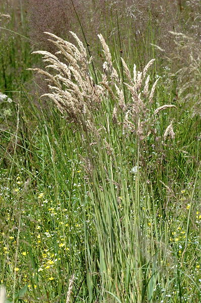 Picture taken in Commanster, Belgian High Ardennes . Species: Holcus mollis